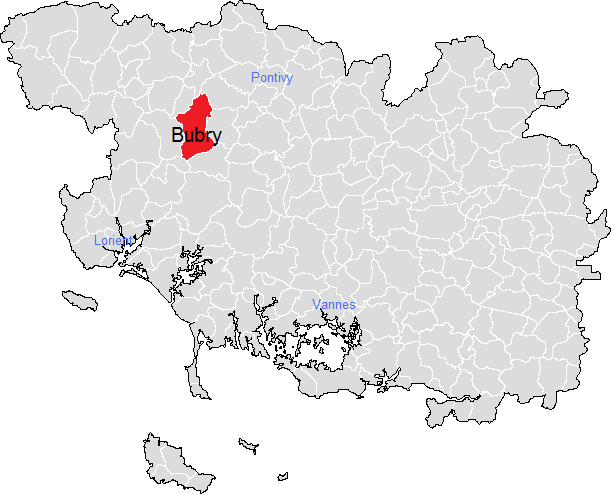 placement Bubry in departement Morbihan